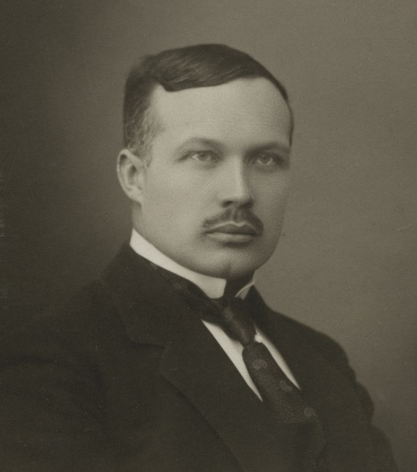 Heikki Kestilä (1879–1962), owner and director of Kestilän Pukimo Oy (1911–1989), the first ready-to-wear garment maker in Finland.